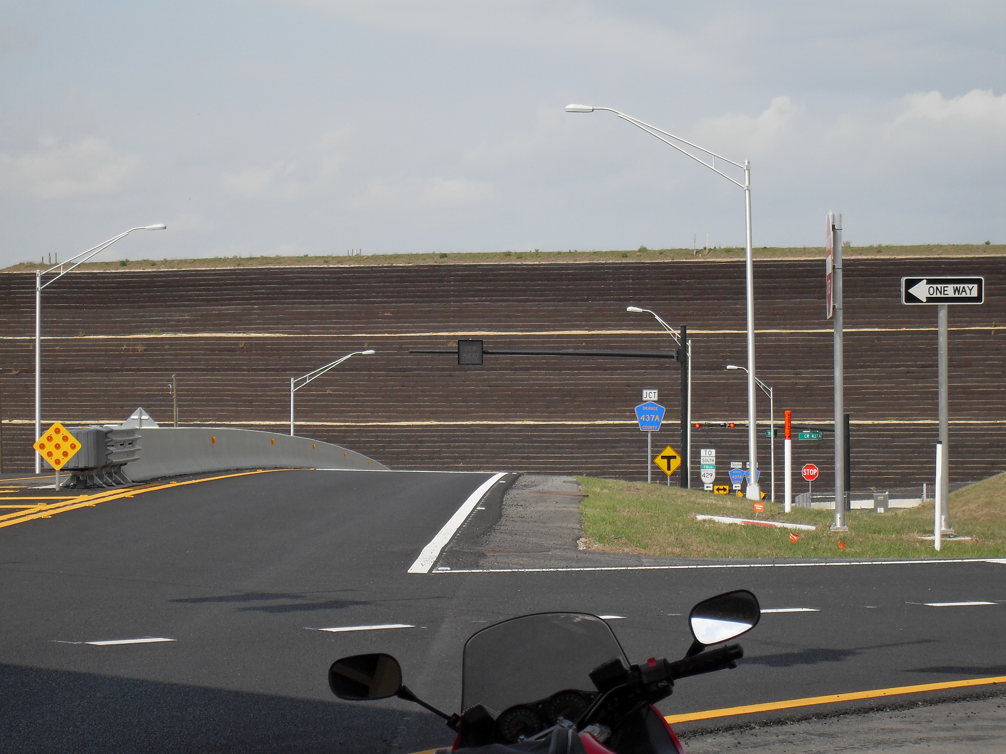 An enormous wall appears when cresting the last hill on Florida's SR 414 westbound before exiting on Ocoee-Apopka Road.